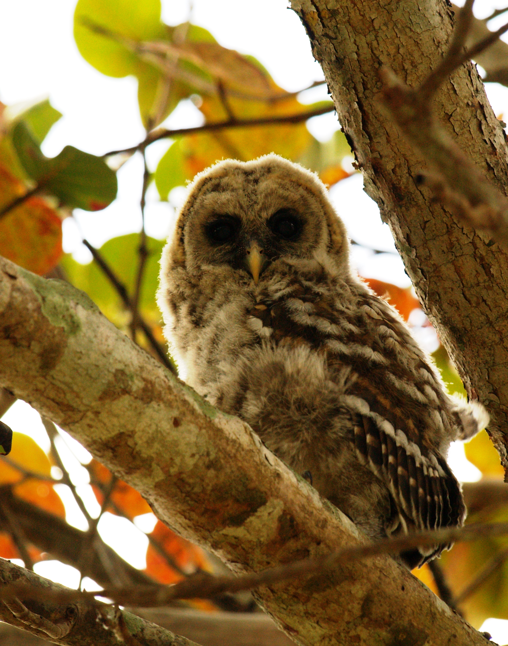 Barred Owl Strix varia owlet, Chekika, East Everglades.